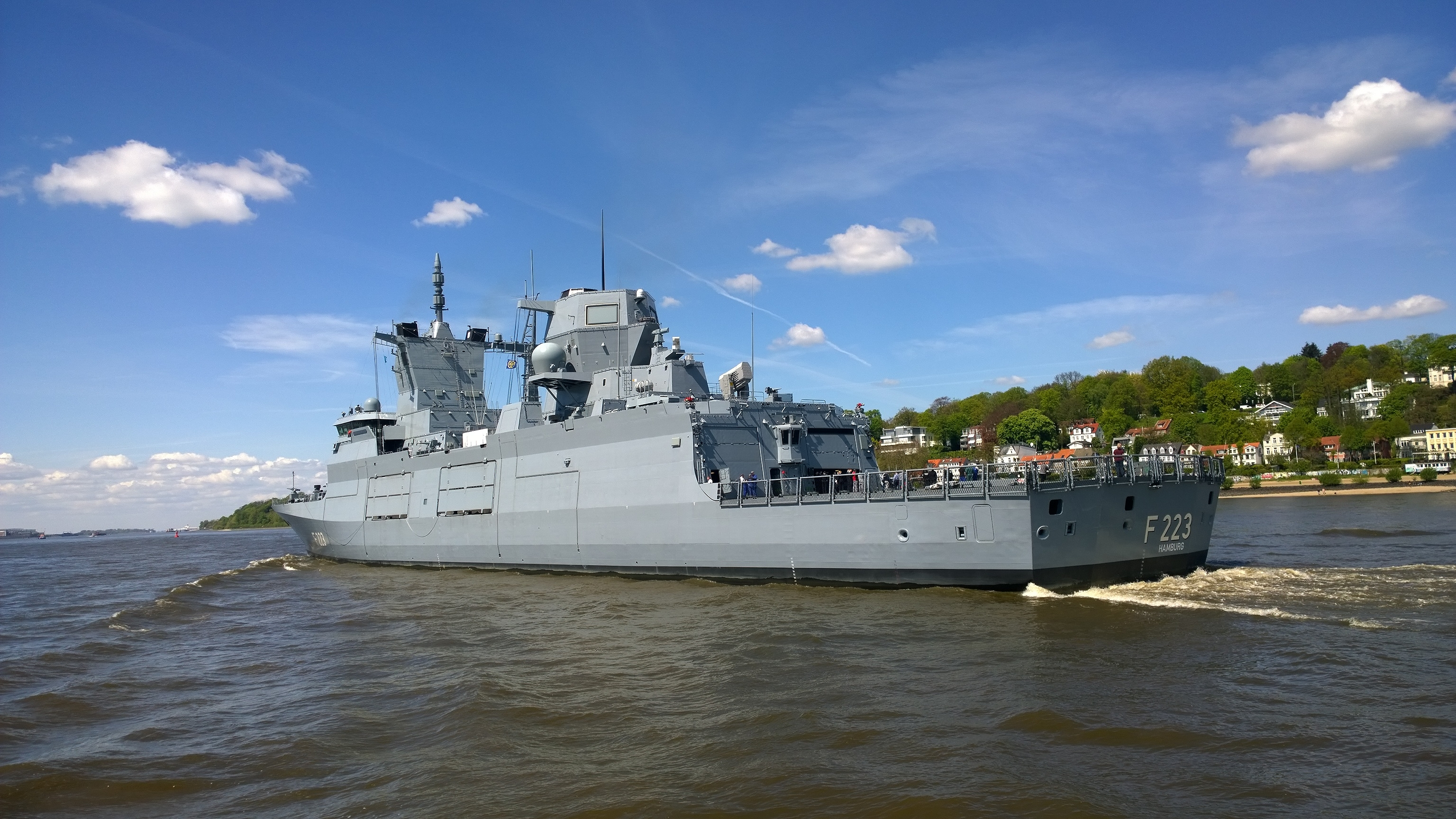 Frigate F223 Nordrhein-Westfalen outgoing Hamburg on the Elbe, rear view